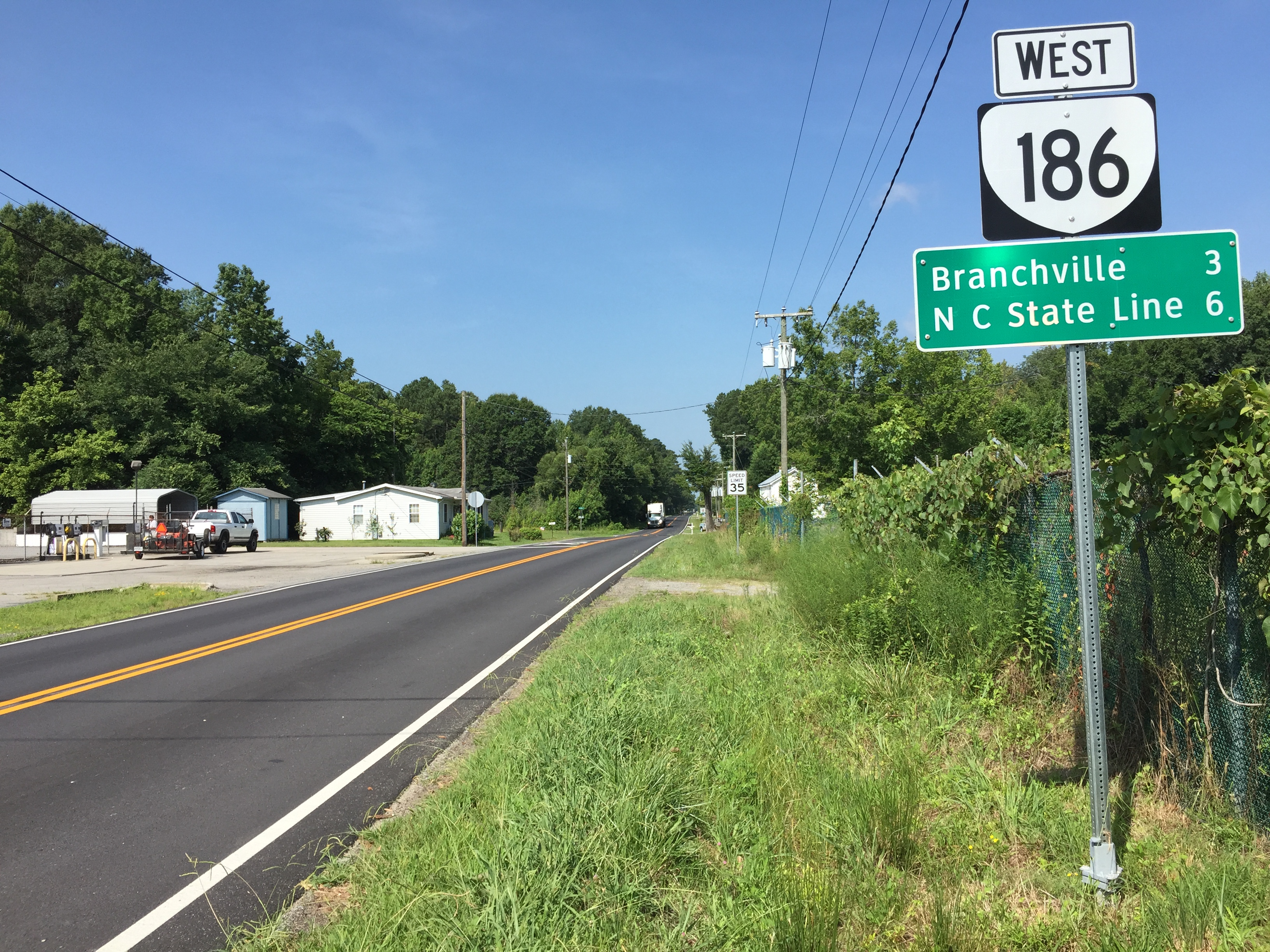 View west along Virginia State Route 186 (Pittman Road) at Esso Drive just west of Boykins in Southampton County, Virginia